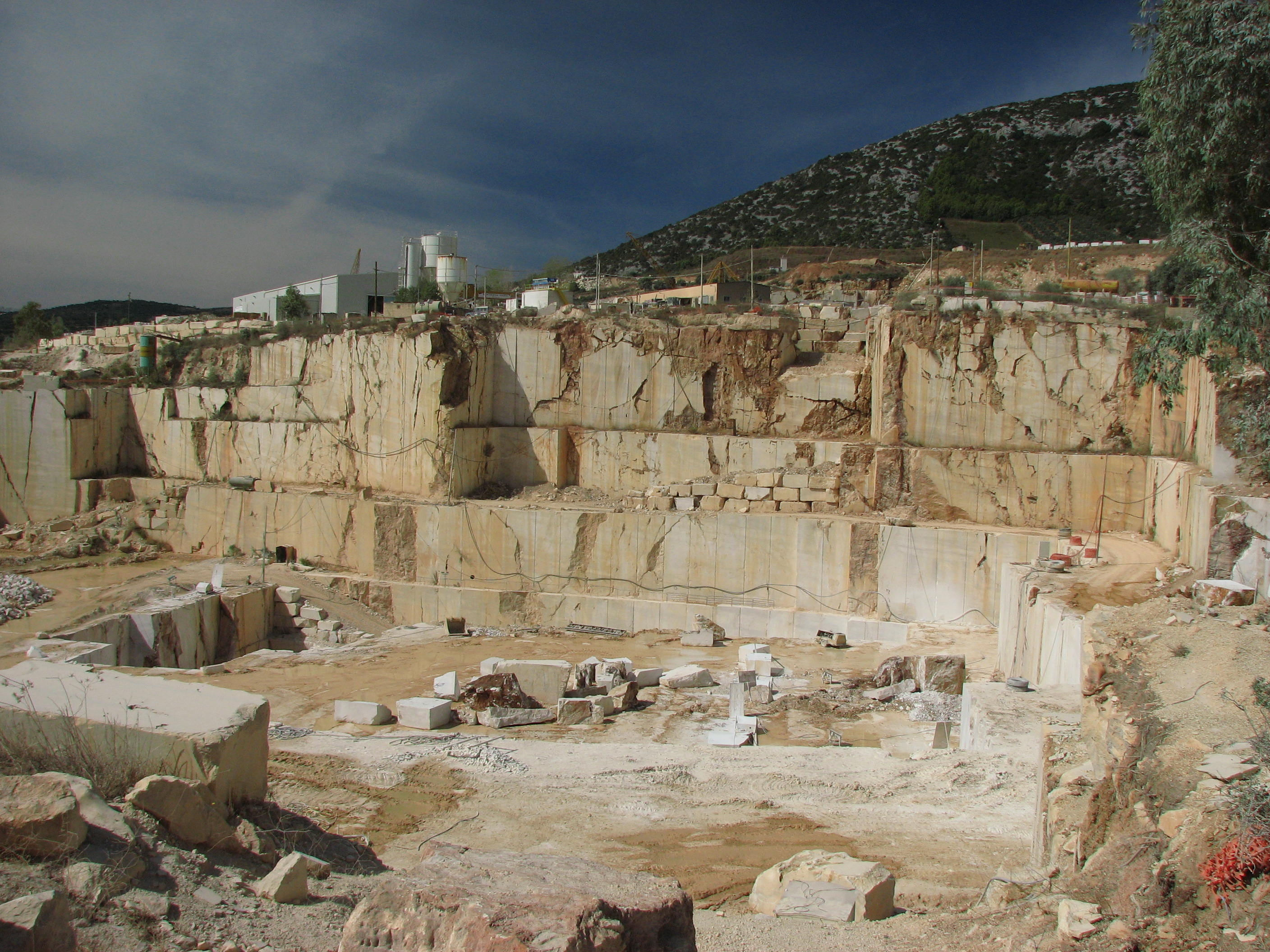 limestone extraction near Orosei, Sardinia